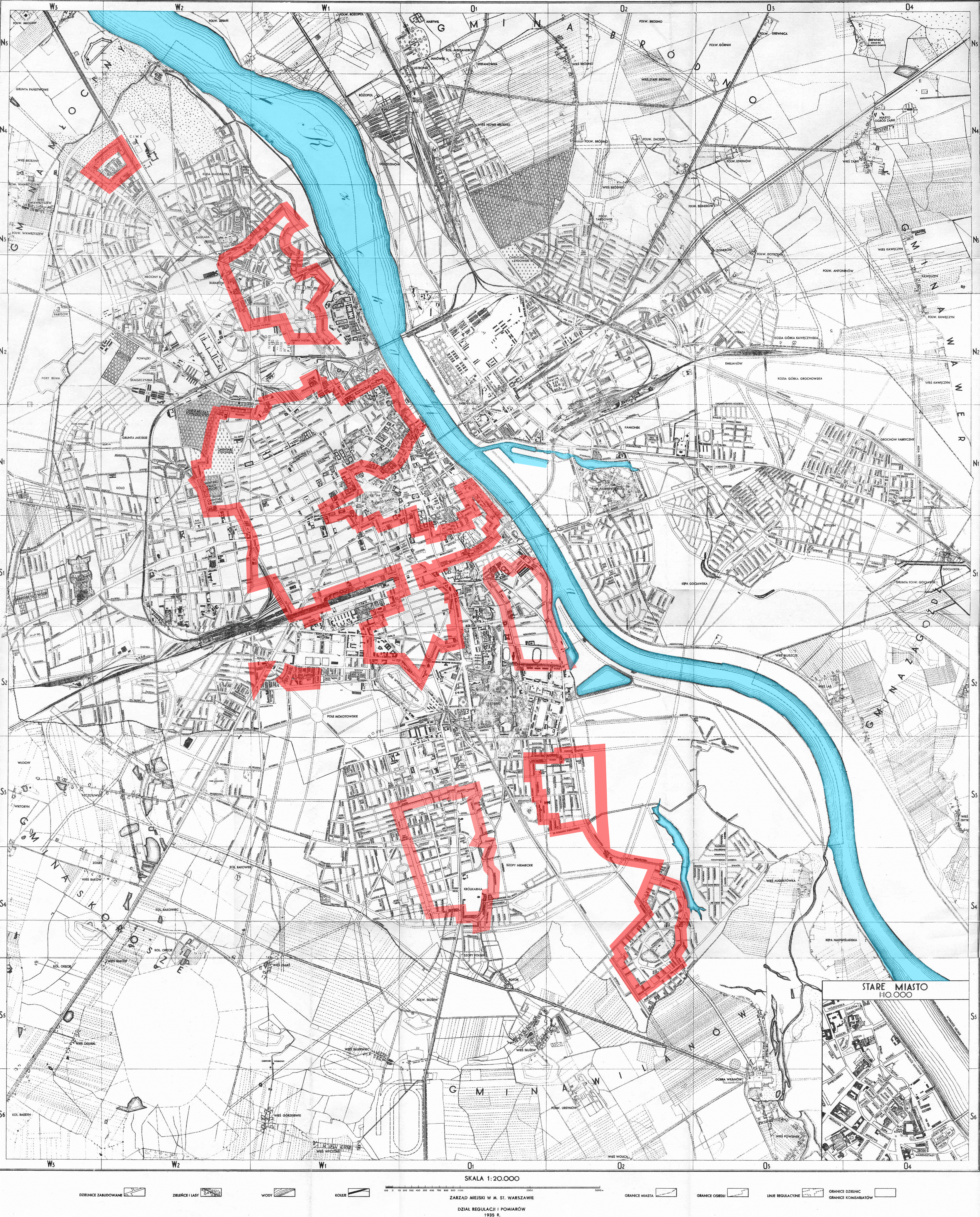 The areas of Warsaw controlled by the Home Army on August 4th, 1944, during the opening stages of the Warsaw Uprising. This map was based on a variety of sources and is pretty accurate, but don't expect any map to be any more or any less accurate: there were no stable front-lines and the ones presented here are only for orientation. Also note that not all areas outside of the Polish zone of control were controlled by the Germans: back in early August much of the city was still a no-man's-land (as was the case of Żoliborz that was abandoned on August 1, and then easily retaken by the Polish forces to retreat to Kampinos and return there)